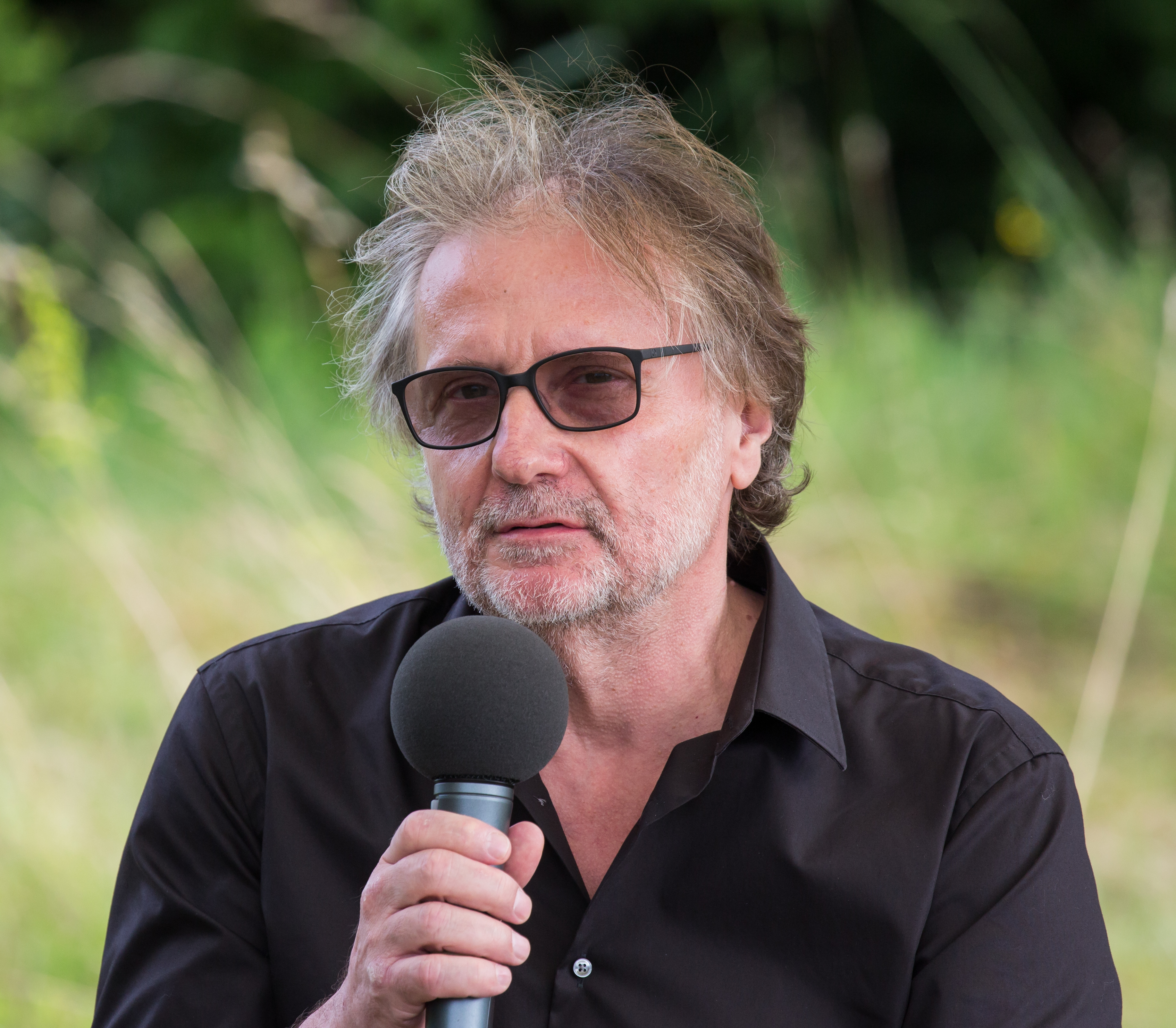 Slovene writer Vinko Möderndorfer as a nominee at the inaugural Cankar Award ceremony in Cankarjev laz near Vrhnika.